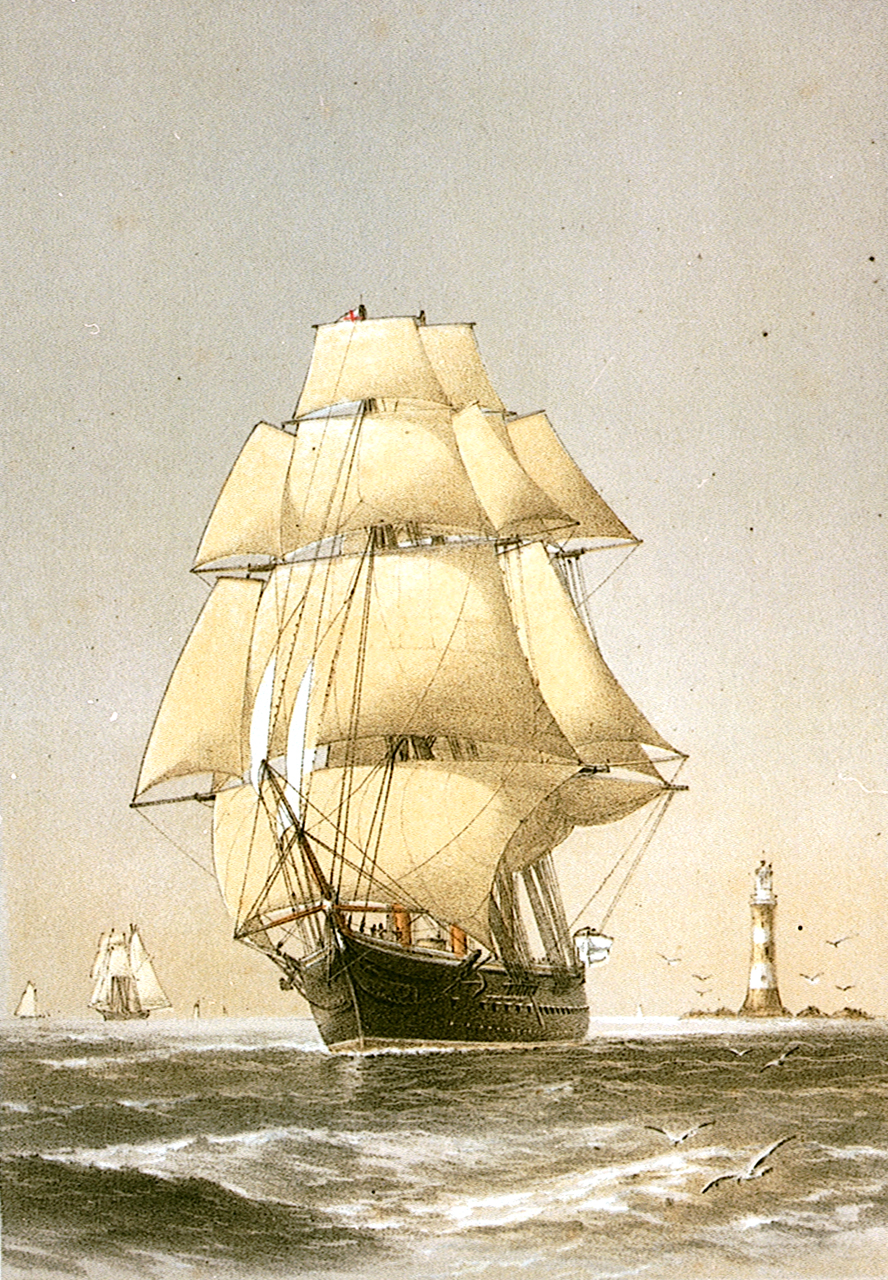 HMS Active Print